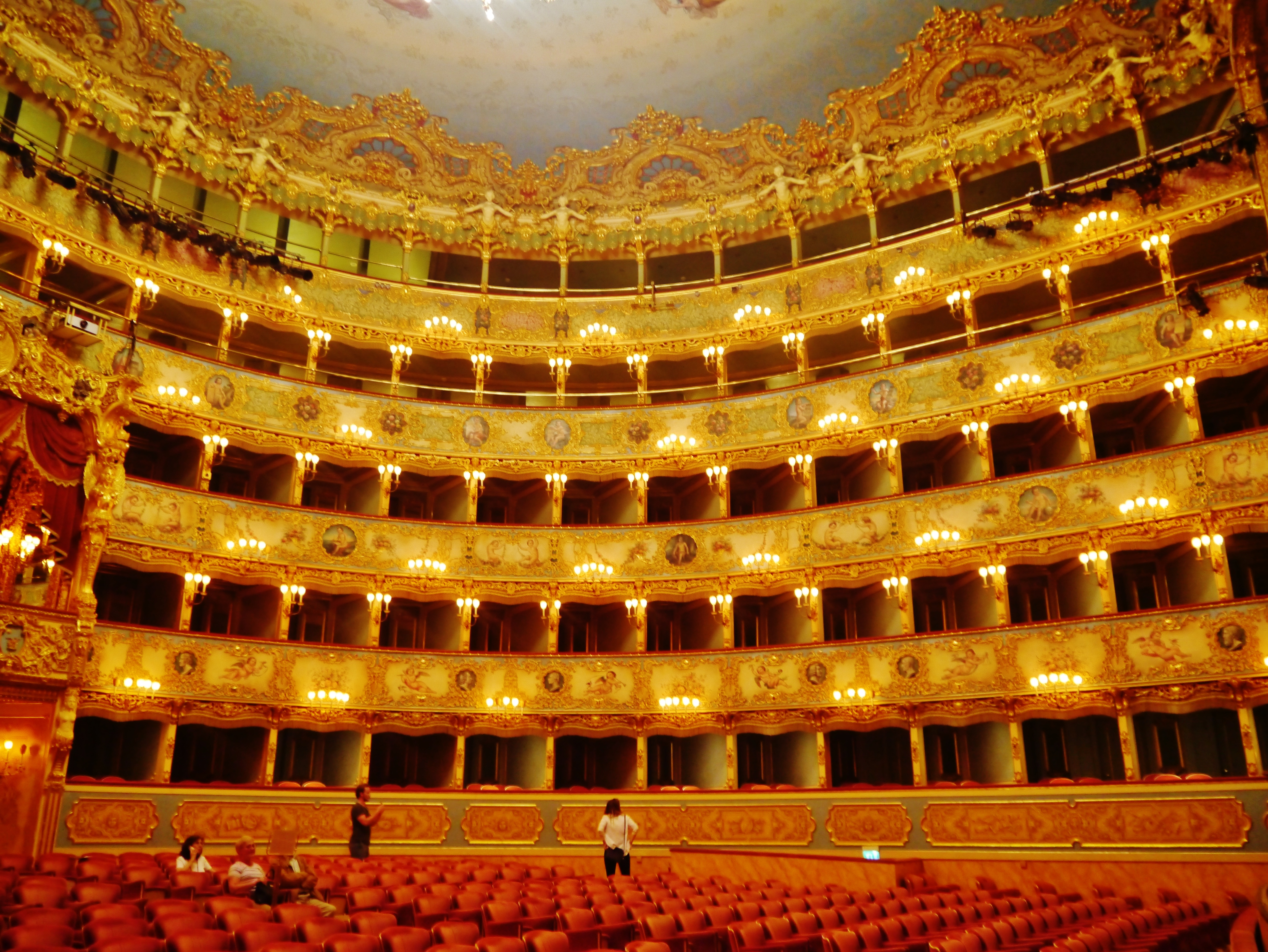 Grand Hall of the Fenice Theatre, Venice, Metropolitan City of Venice, Region of Veneto, Italy